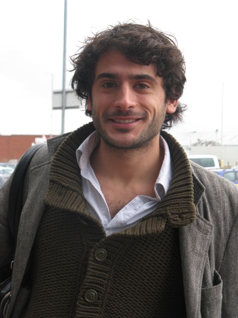 Marc Elliott outside the Ricoh Arena for the Haiti event in February.